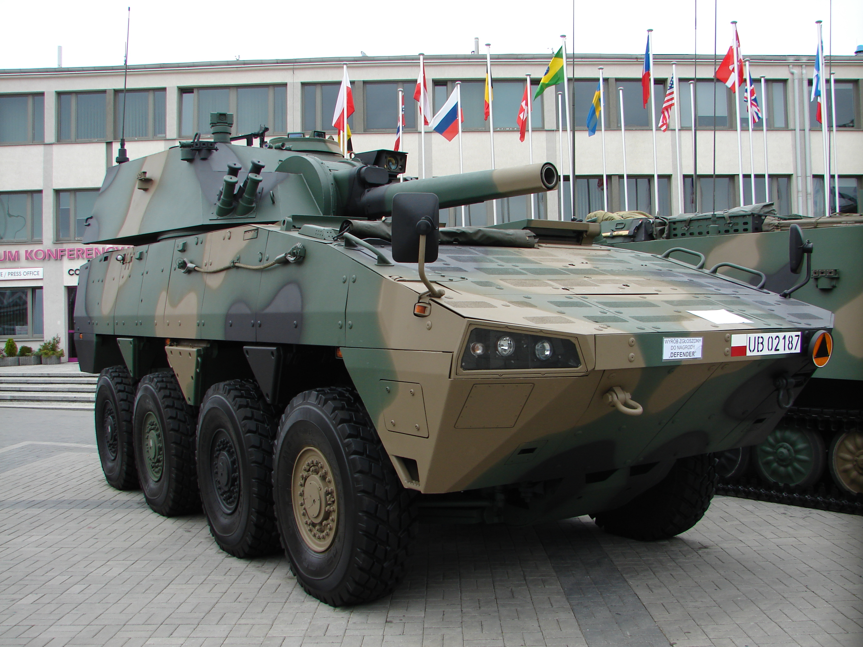 HSW RAK 120 mm mortar prototype in Kielce, Poland. International Defence Industry Exhibition 2011.